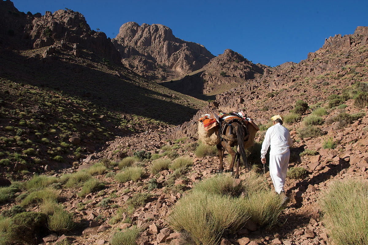 Ichou le Berbere Excursions. Mountain Trekking Morocco